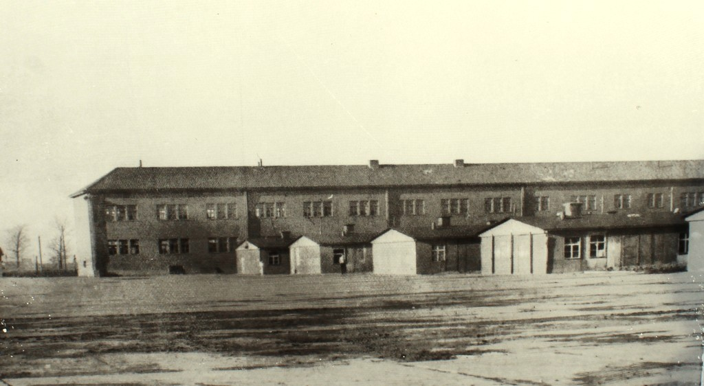 KZ Neuengamme, Blick auf Block H1 und Baracken